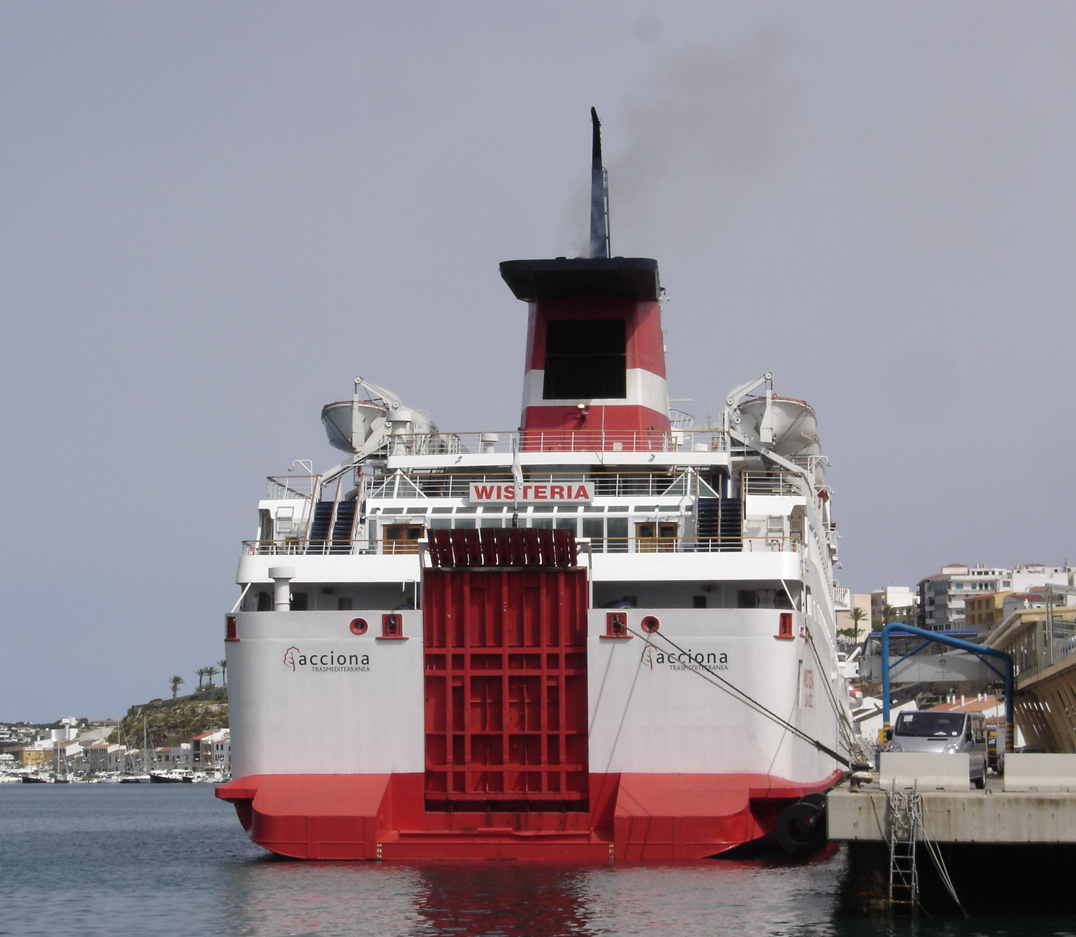 Ferry MV Wisteria